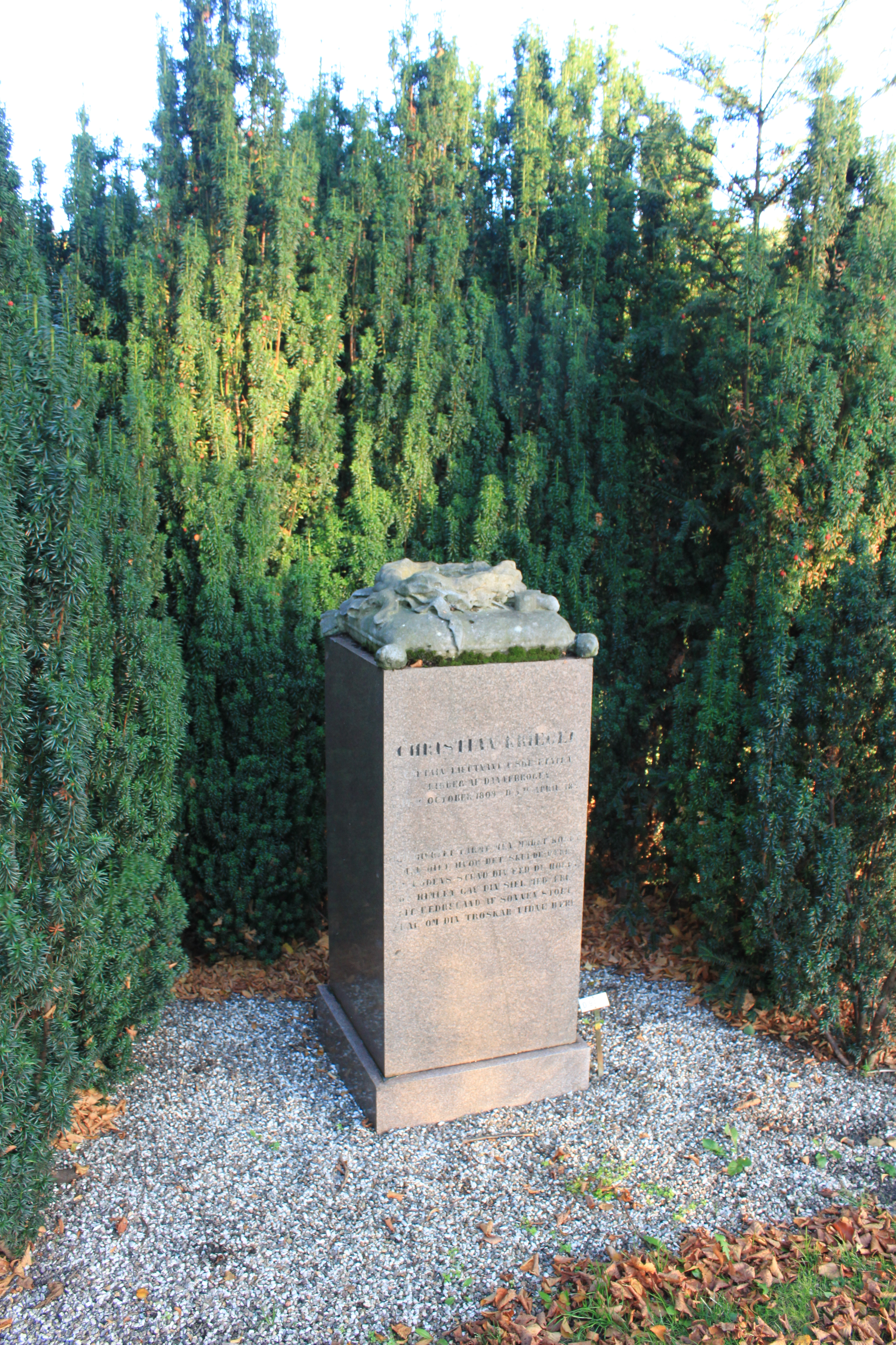 Memorial at Holmens Kirkegård (naval cemetery)